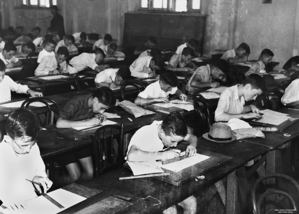 School children doing exams inside a classroom, 1940. Children sitting at their school desks in a classroom doing scholarship examinations, 16 April 1940.